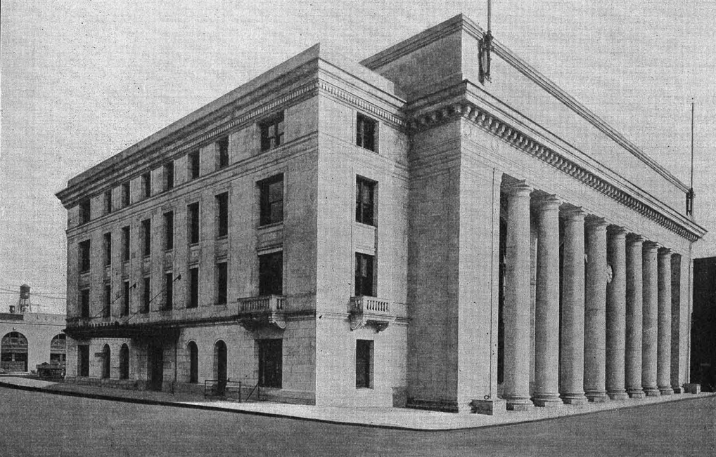 A photograph of the demolished Lehigh Valley Railroad terminal in Buffalo, New York